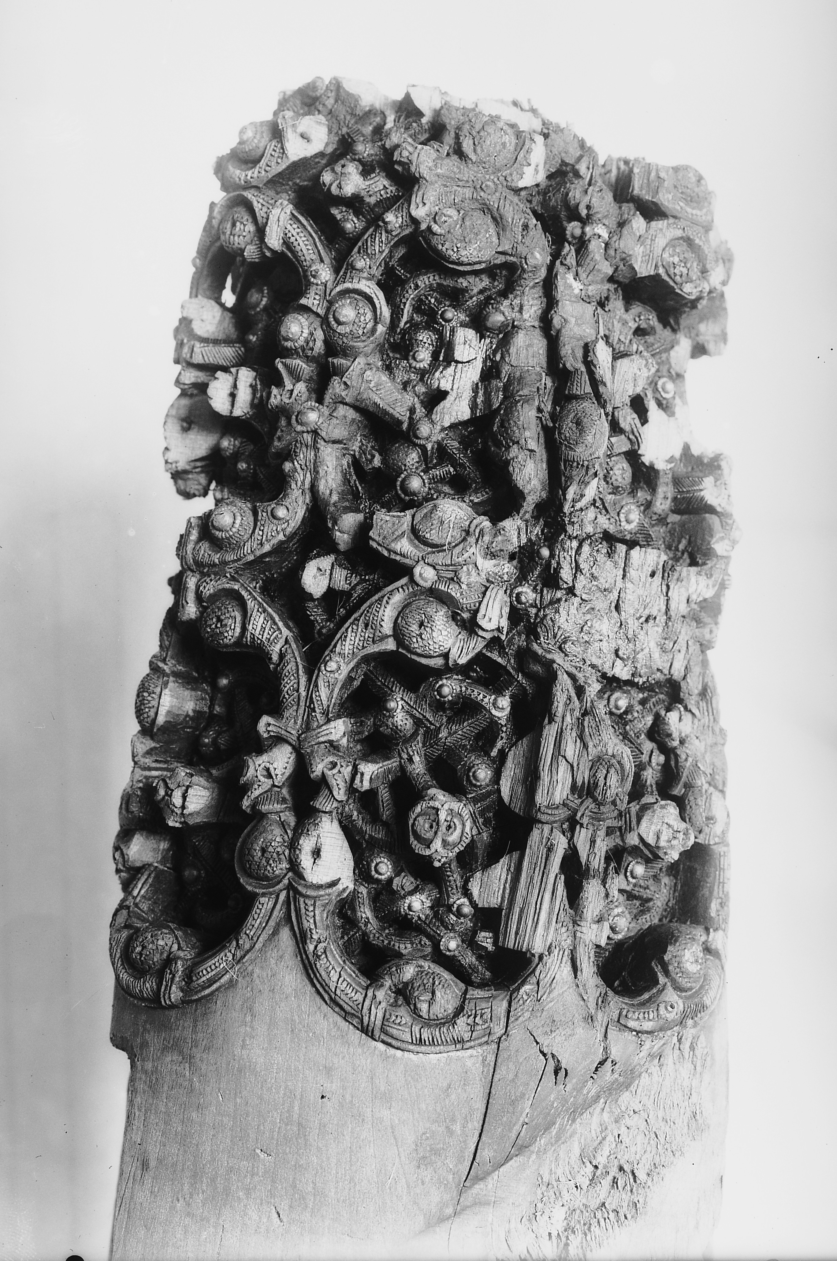 Five unique Viking Age wooden posts with carved animal heads were discovered in a burial mound near Tønsberg (100 km southwest of Oslo, Norway) in 1904. The find consisted of a Viking ship (the Oseberg Ship), numerous wooden and metal artefacts, textiles and even sacrificed animals used as offerings to the two buried women. The animal-head posts are elaborately decorated with dragon or animal heads and patterns with gripping beasts in the Oseberg Style, an early style of Norse art. Four of the posts are on exhibition at The Viking Ship Museum ("Vikingskipshuset på Bygdøy") in Oslo; the fifth is only in pieces. Photo copied from the collections of The Museum of Cultural History in Oslo.